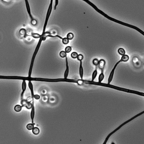 UAMH 11028 Metarhizium granulomatis in phase contrast microscopy showing phialides and conidia produced in slide culture after 5 days incubation at room temperature on PDA